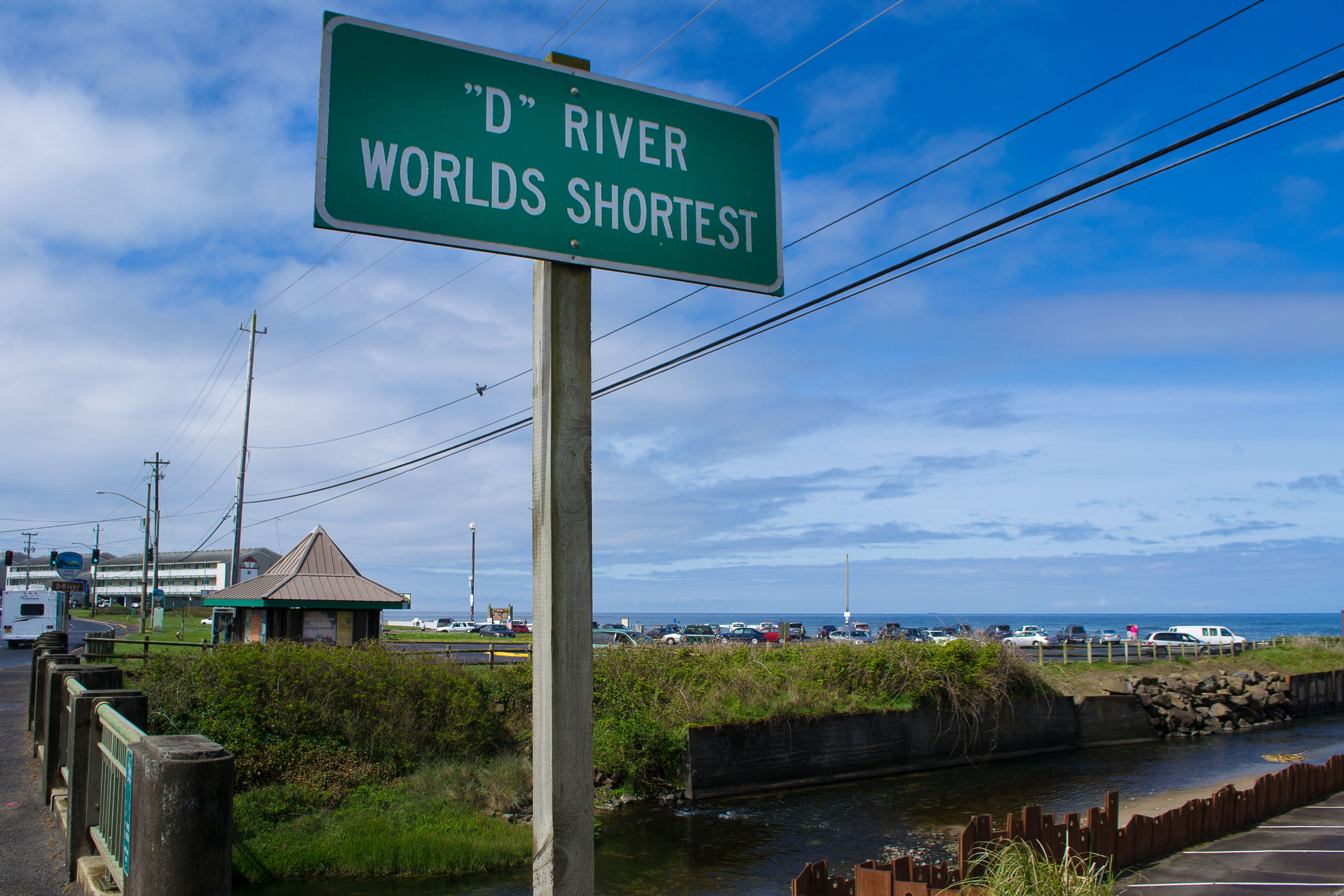 The D River Beach Wayside on the Oregon Coast Highway